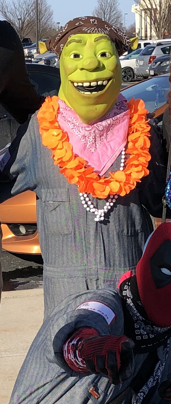 A SICSIC member in their uniform, wearing a rubber Shrek mask.